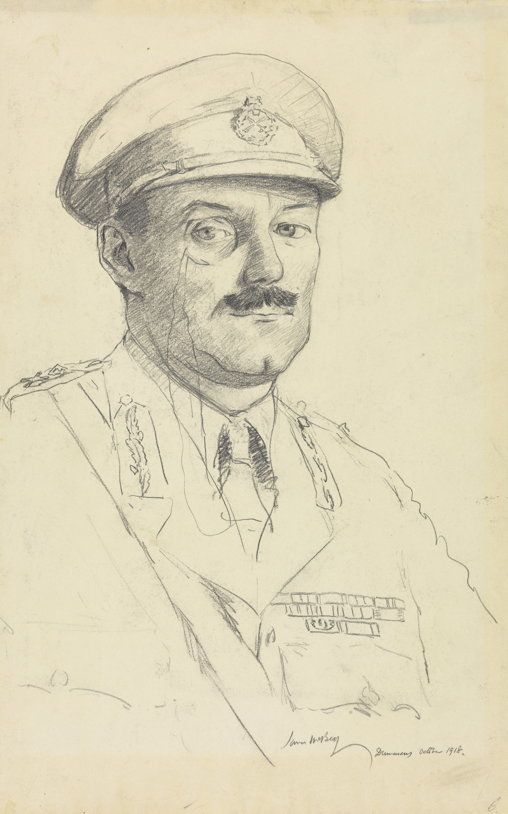 General Shea - Commanding the 60th Division, 1918 image: a half length portrait of Major-General John Shea in uniform, wearing a monocle and peaked cap, and with a moustache.